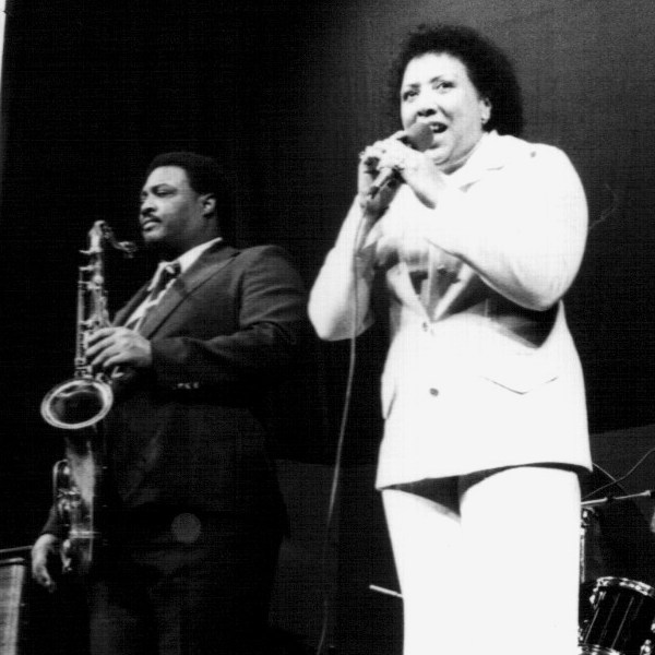 American jazz singer Etta Jones in Paris, France with Houston Person on tenor saxophone.